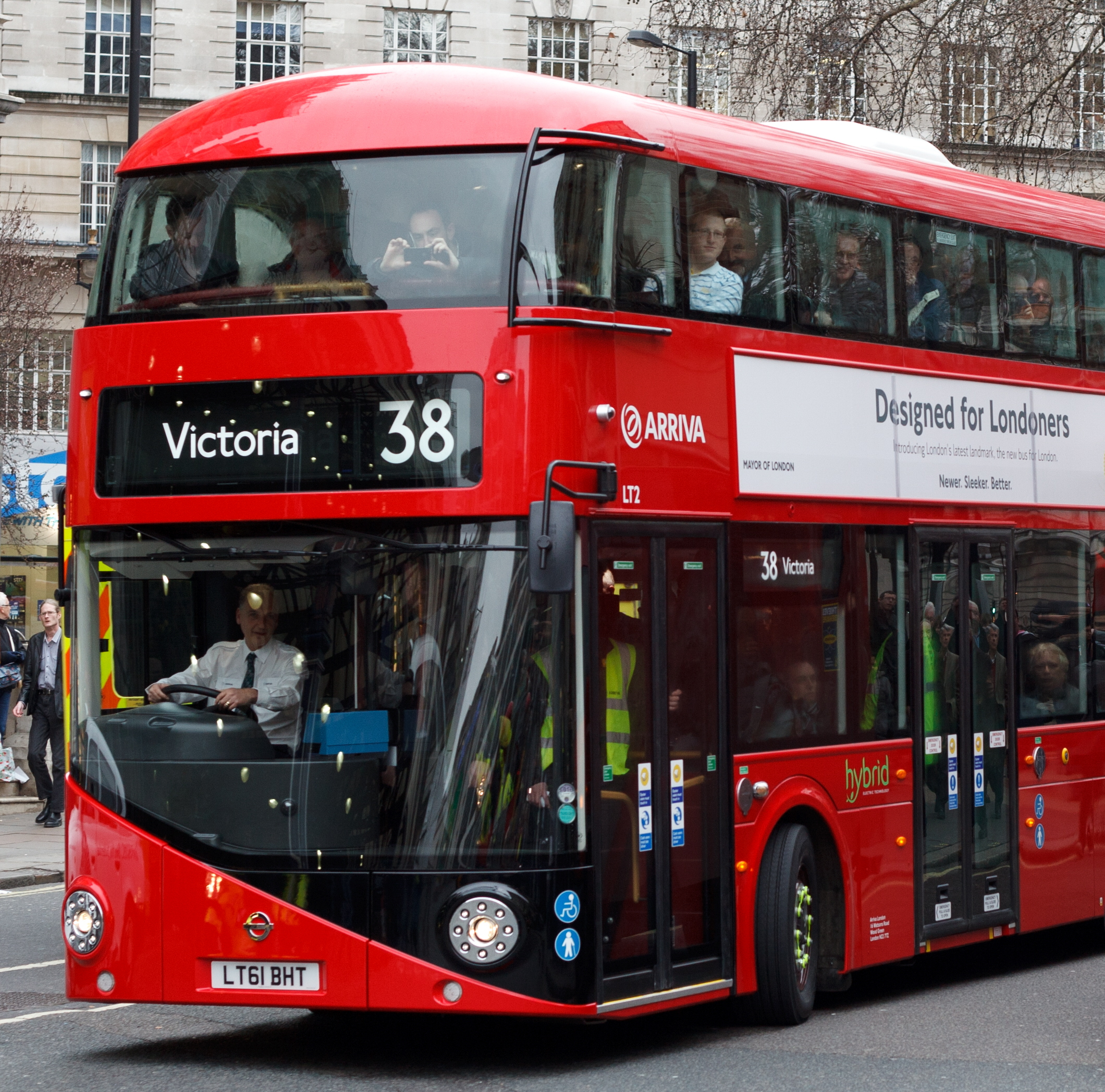 Arriva London bus LT2 (reg. LT61 BHT), the second of the batch of 8 pre-production working prototypes of the New Bus for London. Along with LT1, it entered trial revenue earning service for the first time today, operating on Arriva's London Buses route 38 as additional short worked extras. It's pictured here entering Victoria bus station.